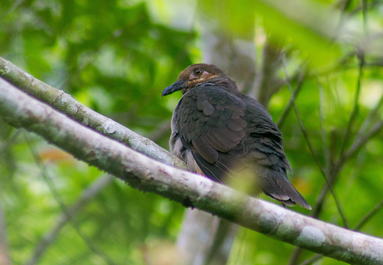 Amethyst Brown Dove (Phapitreron amethystinus) or split as Grey-breasted Brown Dove (Phapitreron maculipectus), Twin Lakes, Sibulan, Negros Oriental, Philippines